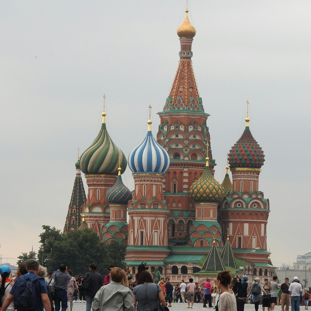 Basmanny District, Moscow, Russia